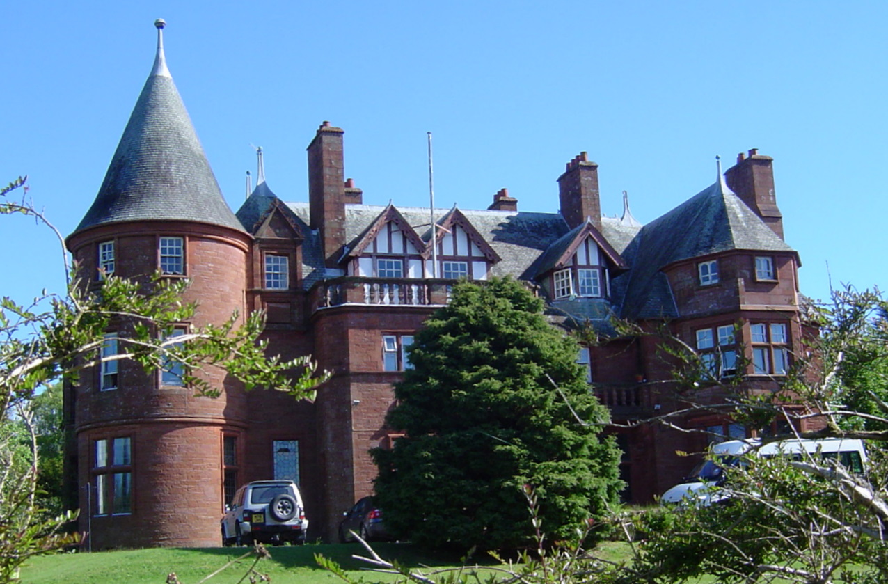 Red Towers, Douglas Drive West - designed by William Leiper